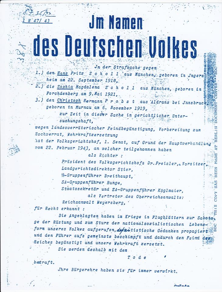 Translation made by Berlin Documents Center HQ US Army Berlin Command of 1943 Decree against the "White Rose" group. IN THE NAME OF THE GERMAN PEOPLE in the action against 1. Hans Fritz Scholl, Munich, born at Ingersheim, September 22, 1918, 2. Sophia Magdalena Scholl, Munich, born at Forchtenberg, May 9, 1921, and 3. Christoph Hermann Probst, of Aldrans bei Innsbruck, born at Murnau, November 6, 1919, now in investigative custody regarding treasonous assistance to the enemy, preparing to commit high treason, and weakening of the nation's armed security, the People's Court first Senate, pursuant to the trial held on February 22 1943, in which the officers were: President of the People's Court Dr. Freisler, Presiding, Director of the Regional Judiciary Stier, SS Group Leader Breithaupt, SA Group Leader Bunge, State Secretary and SA Group Leader Koglmaier, and representing the Attorney General to the Supreme Court of the Reich, Reich Attorney Weyersberg, [We]find: That the accused have in time of war by means of leaflets called for the sabotage of the war effort and armaments and for the overthrow of the National Socialist way of life of our people, have propagated defeatist ideas, and have most vulgarly defamed the Führer, thereby giving aid to the enemy of the Reich and weakening the armed security of the nation. On this account they are to be punished by DEATH Their honor and rights as citizens are forfeited for all time.